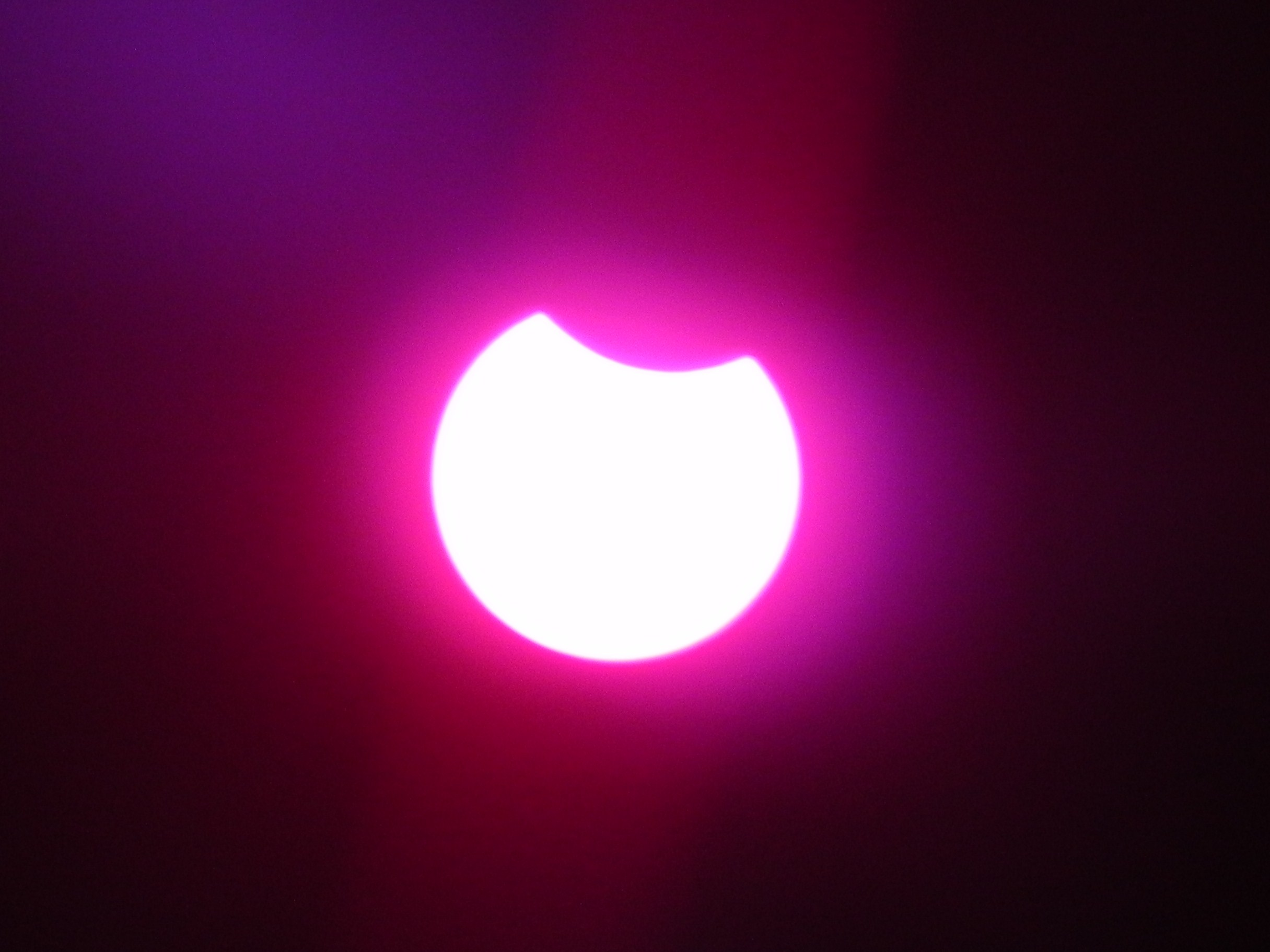 Solar eclipse of January 4, 2011 seen from Sana'a - Yemen.